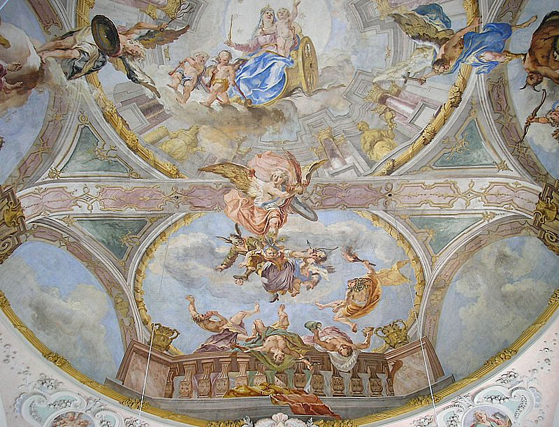 Pilgrimage church Maria Aich (Peissenberg, Landkreis Weilheim-Schongau, Upper Bavaria, Germany). Eastern part of the great fresco at the nave (Matthäus Günther, 1734)